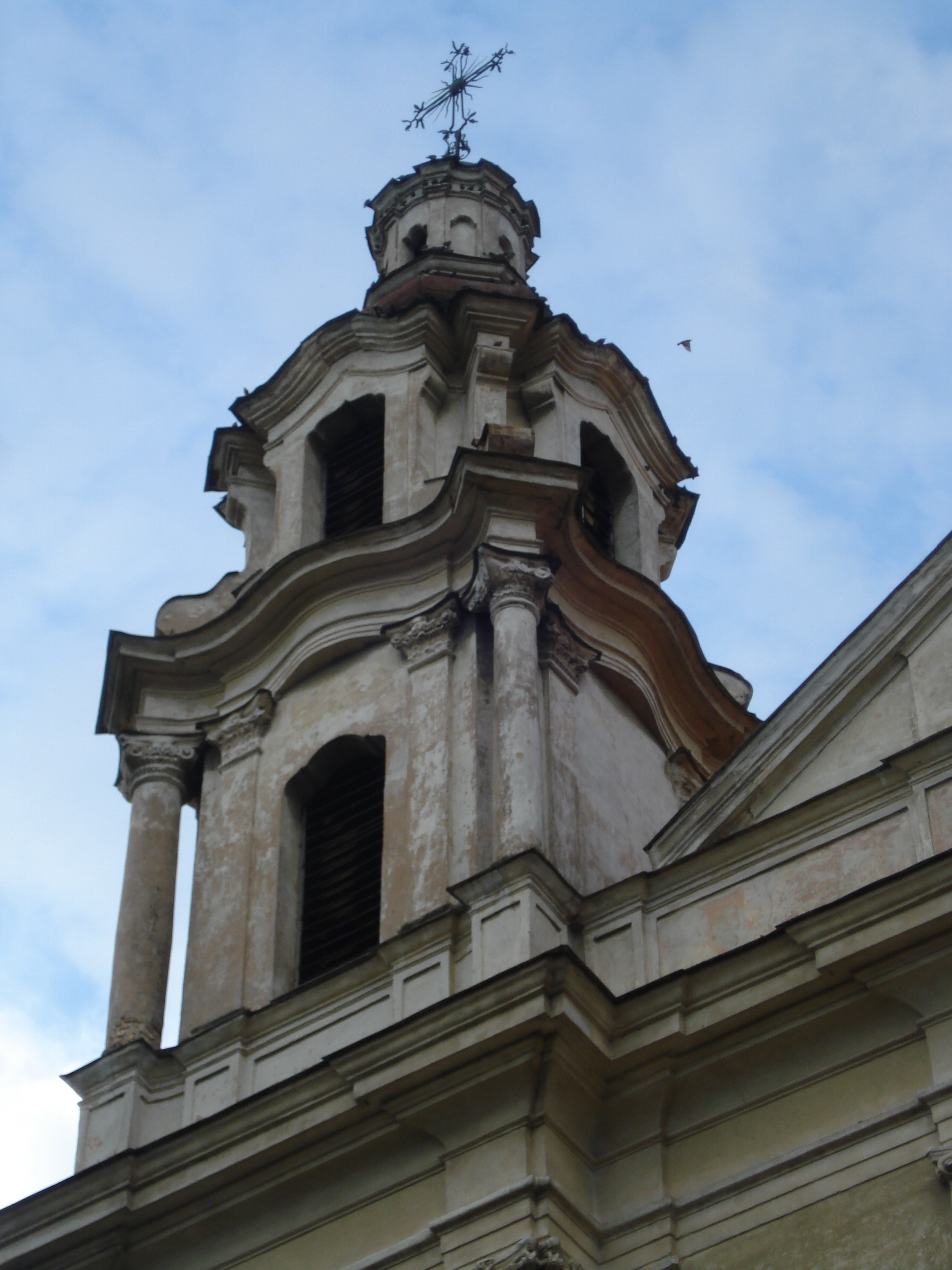 Church of the St Raphael the Archangel in Vilnius (Šnipiškių g. 1). Left tower